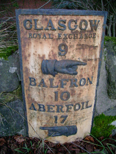 Milepost on A81 This milepost is adjacent to the grounds of Craigmaddie House.